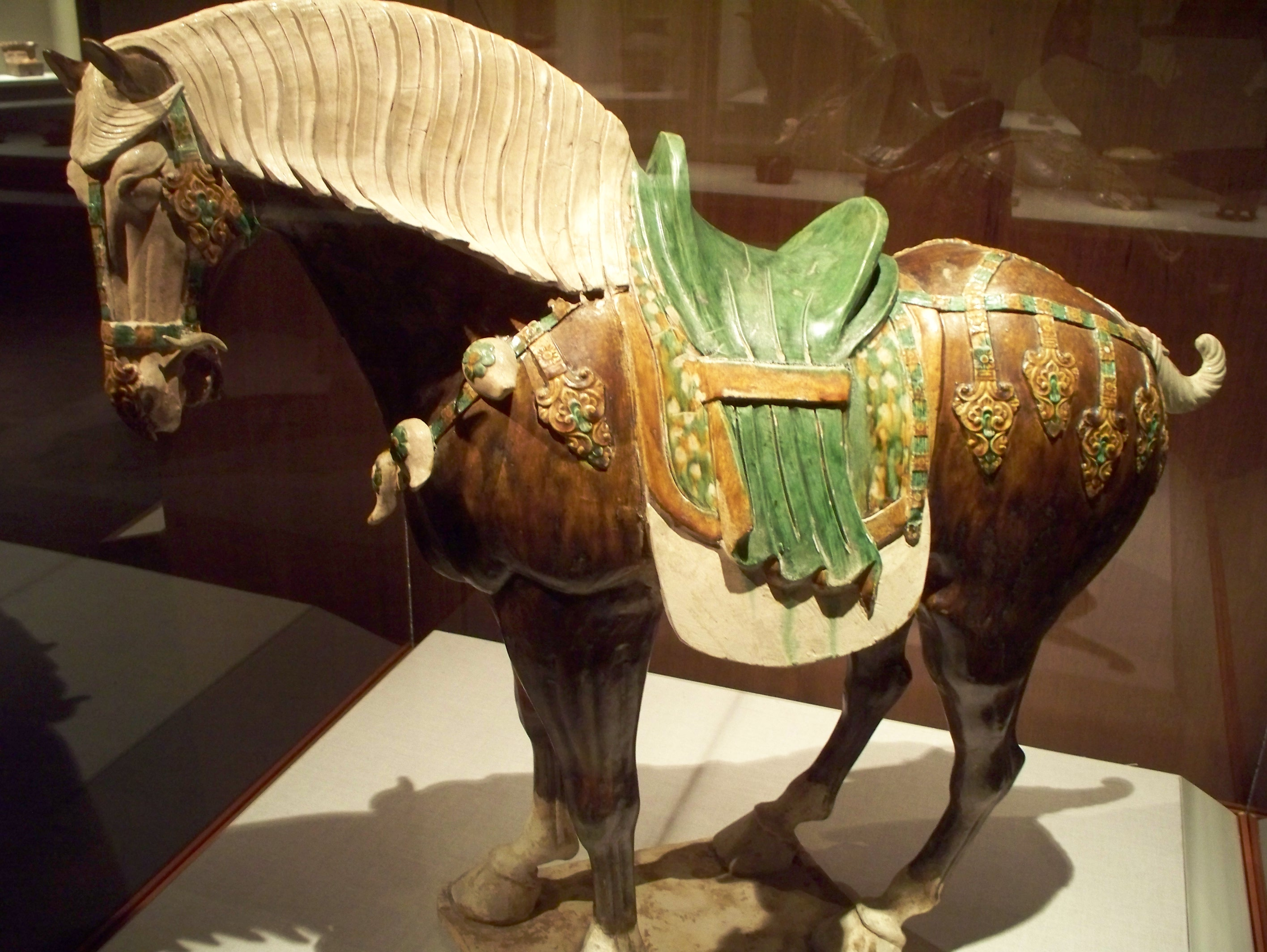 Saddled Horse Creation date 700s Dynasty Tang dynasty Materials earthenware with lead glaze Dimensions 26 x 27 in. Location Arthur R. & Frances D. Baxter Gallery Credit line Gift of Mr. and Mrs. Eli Lilly Accession number 60.75 Size indicates that this horse was made for someone from the highest ranks of society. Horses were highly valued for the military and for activities such as polo. The most prized horses were the tall and powerful breeds, descendents of the "dragon seed" imported from the West. The Tang dynasty began with 5,000 horses and 50 years later boasted herds numbering 706,000. Wikipedia Loves Art at the Indianapolis Museum of Art This photo of item # 60.75 at the Indianapolis Museum of Art was contributed under the team name "Opal_Art_Seekers_4" as part of the Wikipedia Loves Art project in February 2009. Indianapolis Museum of Art The original photograph on Flickr was taken by Forever Wiser—please add a comment to the original Flickr page whenever a use has been made on Wikipedia or another project. Project galleries on Flickr: this institution, this team